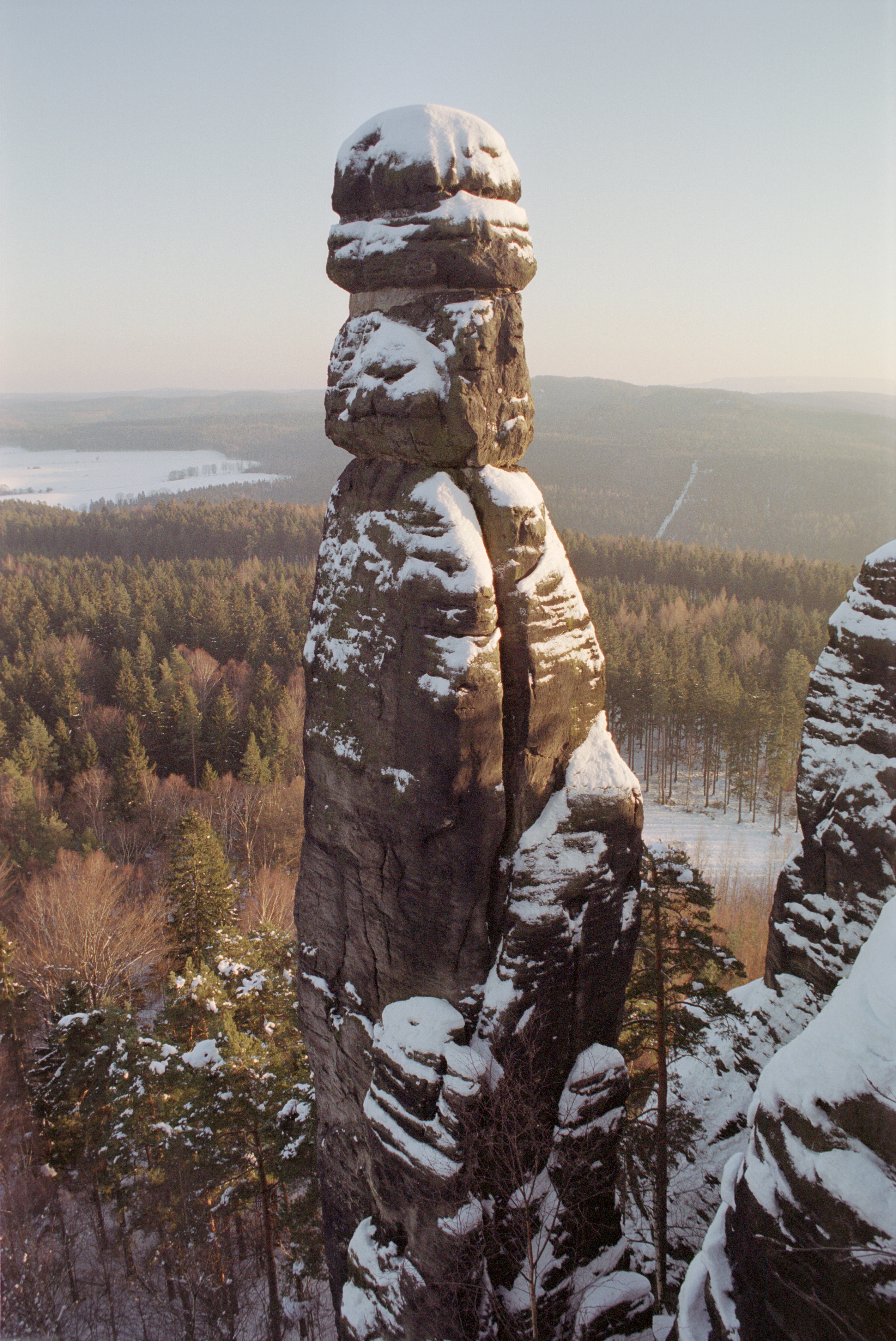 self taken picture, taken in early 2005 shows the rock "Barbarine" at the "Pfaffenstein" in the elb sandstone mountains